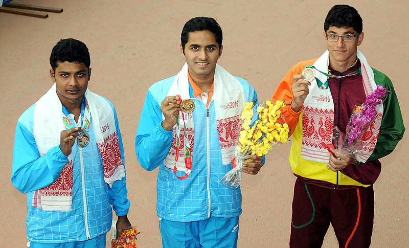 Saurabh Sangverkar (INDIA) won Gold Medal, Sajan Prakash (INDIA) won Silver and Kyle Abeysingh (SRI LANKA) won Bronze Medal, in the men’s swimming 400m Men’s Freestyle category, at the 12th South Asian Games-2016, in Guwahati on February 09, 2016.